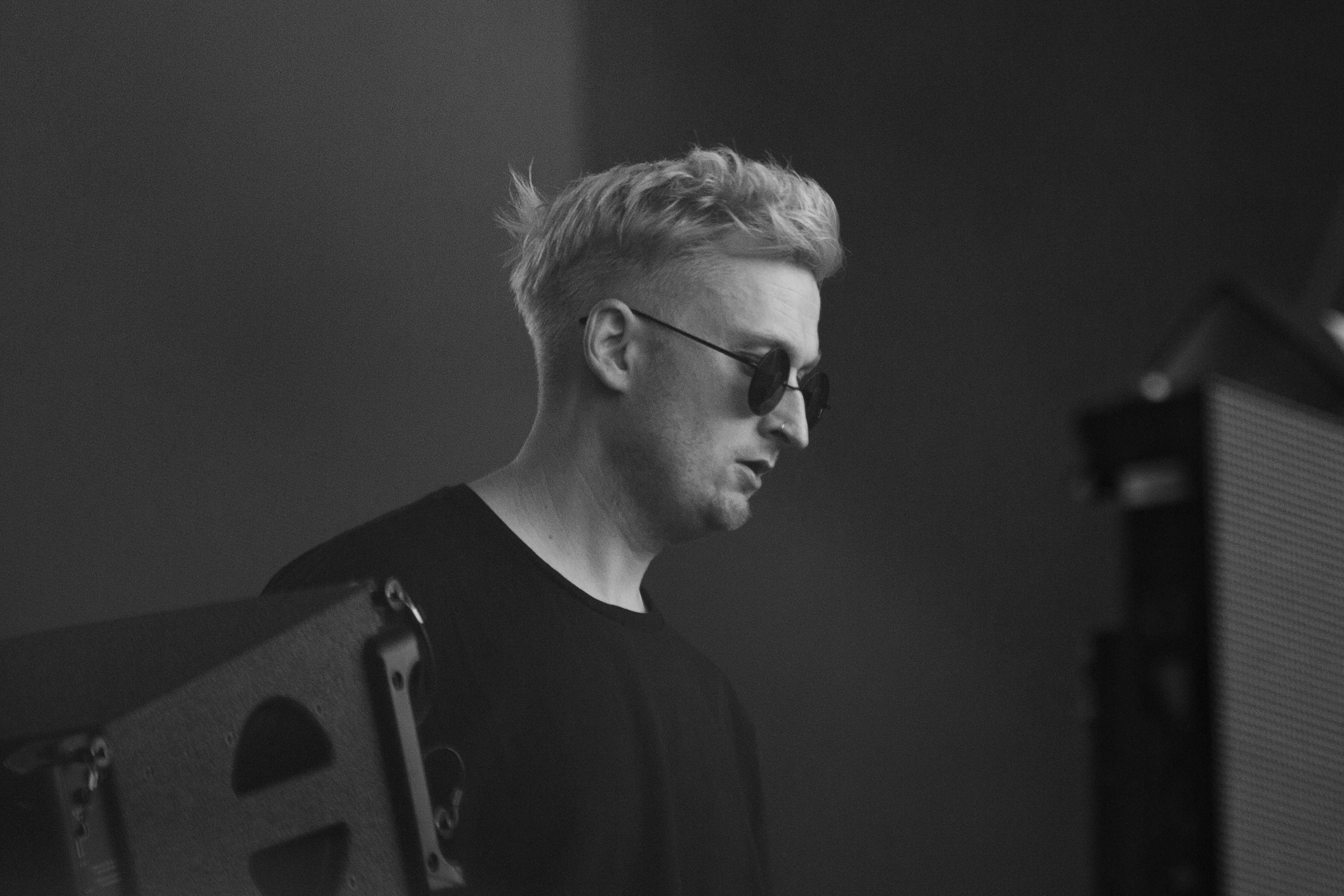 Ostblockschlampen at SonneMondSterne 2018, Mainstage